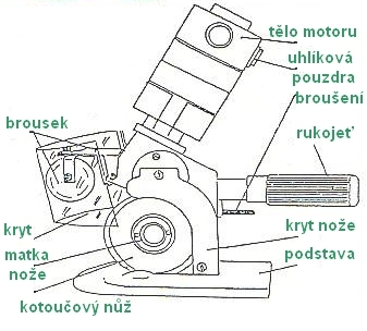 Circural cutting machine for cut textile